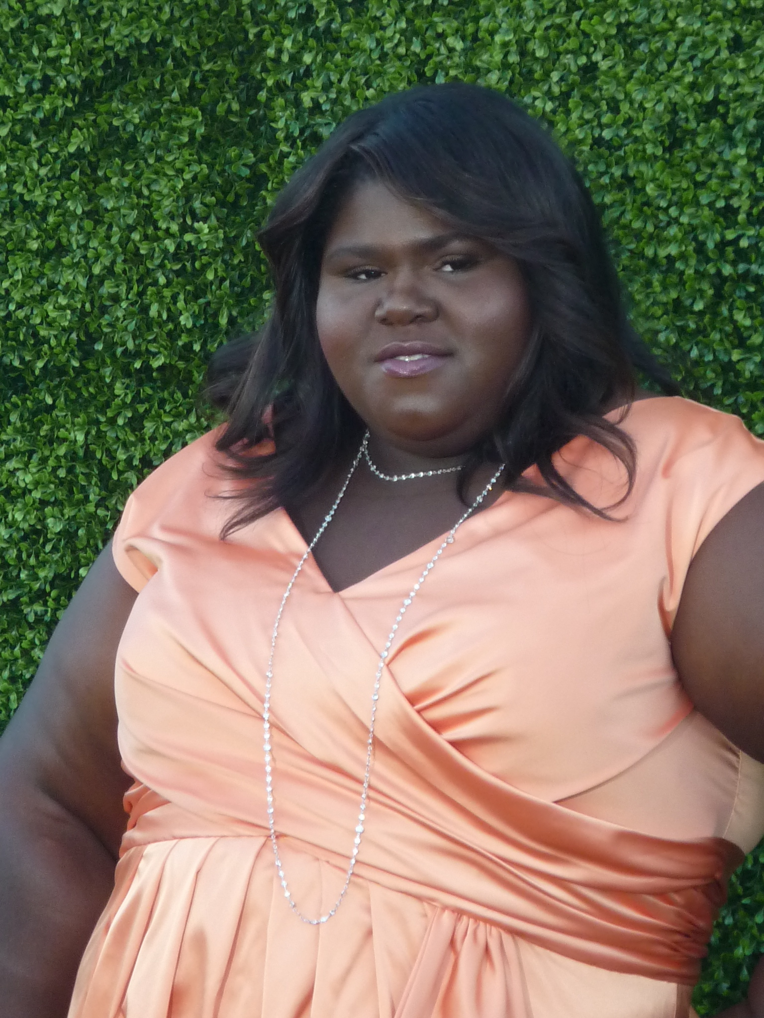 Actress Gabourey Sidibe at 2010 CBS Summer Press Tour Party.